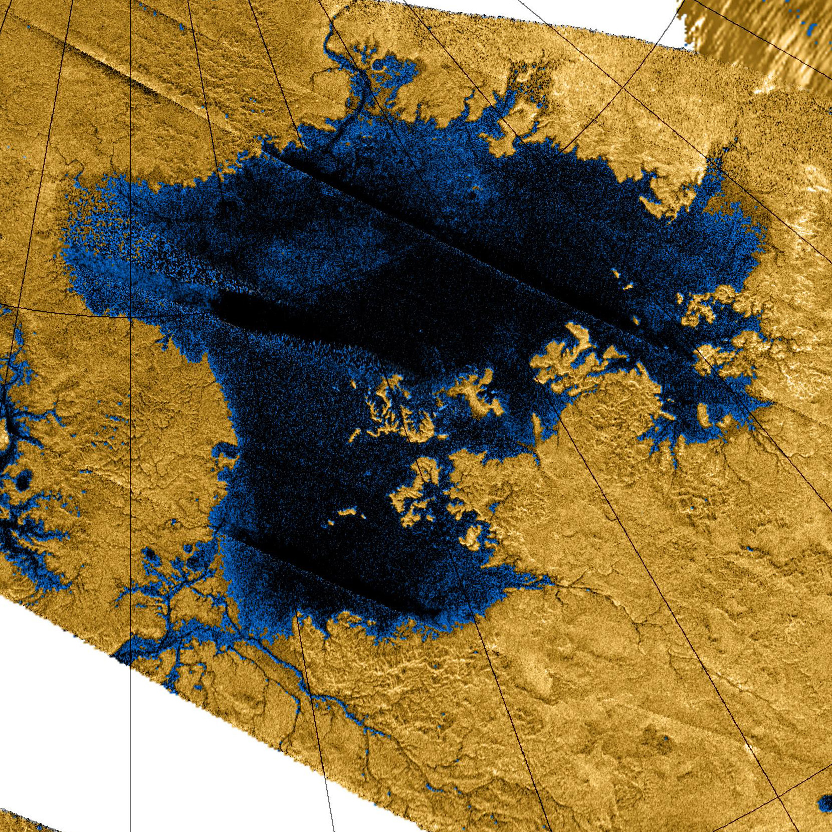 This Cassini false-color mosaic shows synthetic-aperture radar imagery of Titan's north polar region. Approximately 60 percent of Titan's north polar region, above 60 degrees north latitude, is now mapped with radar. About 14 percent of the mapped region is covered by what is interpreted as liquid hydrocarbon lakes. Features thought to be liquid are shown in blue and black, and the areas likely to be solid surface are tinted brown. These seas are most likely filled with liquid ethane, methane and dissolved nitrogen. Many bays, islands and presumed tributary networks are associated with the seas. Of the 400 observed lakes and seas, 70 percent of their area is taken up by large "seas" greater than 26,000 square kilometers (10,000 square miles). The Cassini-Huygens mission is a cooperative project of NASA, the European Space Agency and the Italian Space Agency. The Jet Propulsion Laboratory, a division of the California Institute of Technology in Pasadena, manages the mission for NASA's Science Mission Directorate, Washington, D.C. The Cassini orbiter was designed, developed and assembled at JPL. The radar instrument was built by JPL and the Italian Space Agency, working with team members from the United States and several European countries. For more information about the Cassini-Huygens mission, visit The original NASA image has been modified by cropping, to show primarily Ligeia Mare, and rotating 90 deg., to put north at upper left.